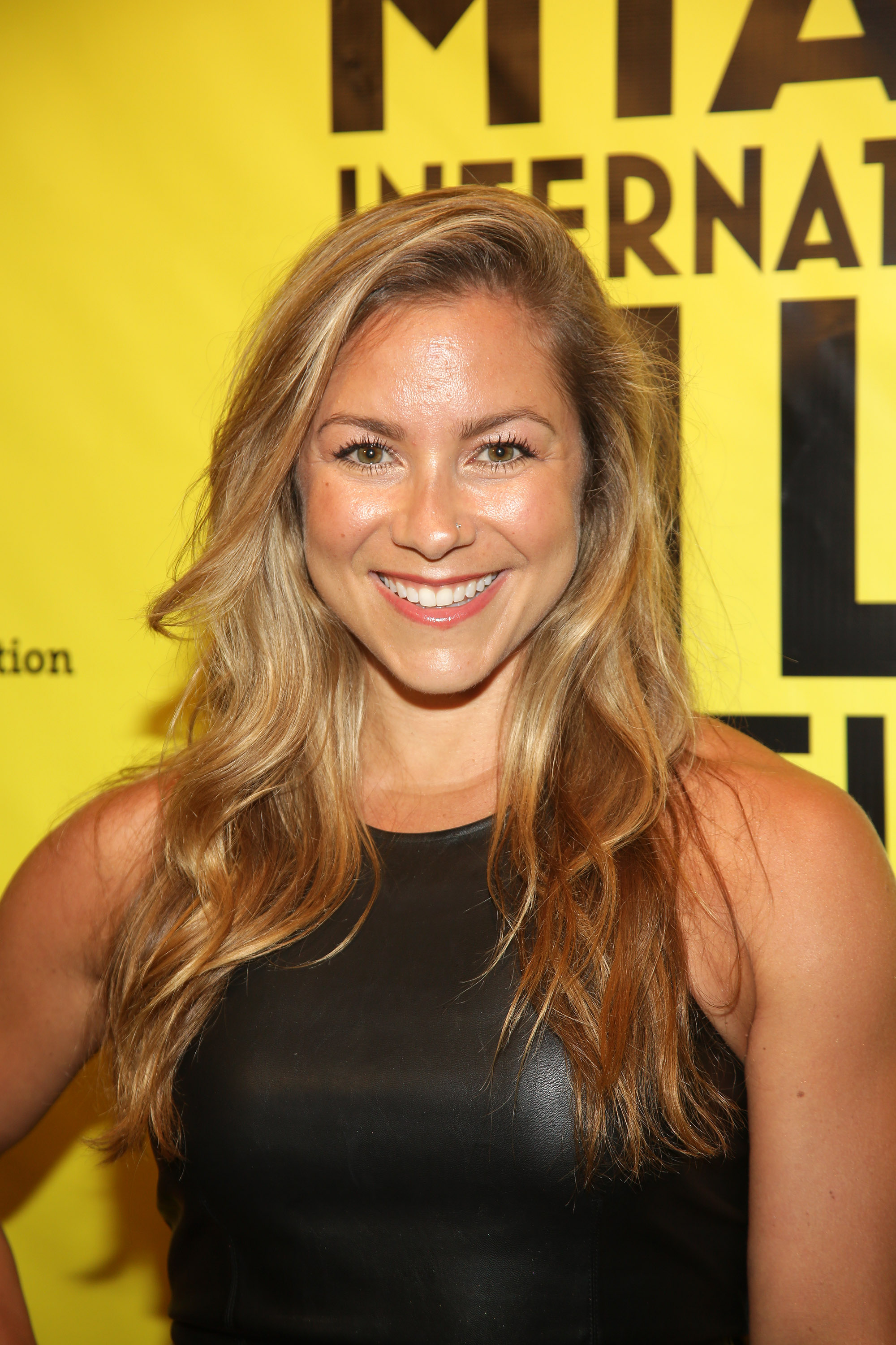 Allison Hagendorf at the Miami Film Festival's presentation of "Sweet Micky for President" 3/13/15